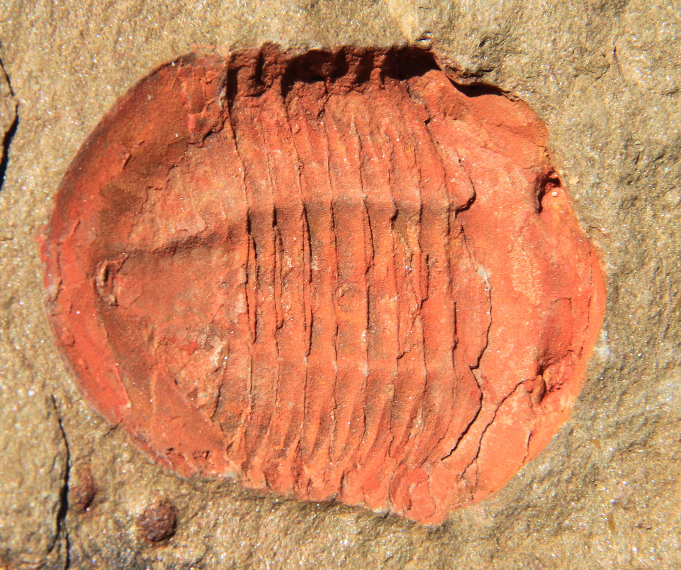 An Asaphus jujuanus trilobite, Order Asaphida, Family Asaphidae, negative, 36mm along the axis, collected in the Draa Valley, Morocco, from the late Lower Ordovician (Floian)